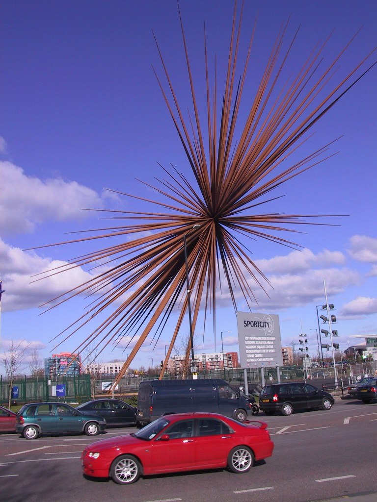 The B of the Bang, a sculpture in Manchester, UK.